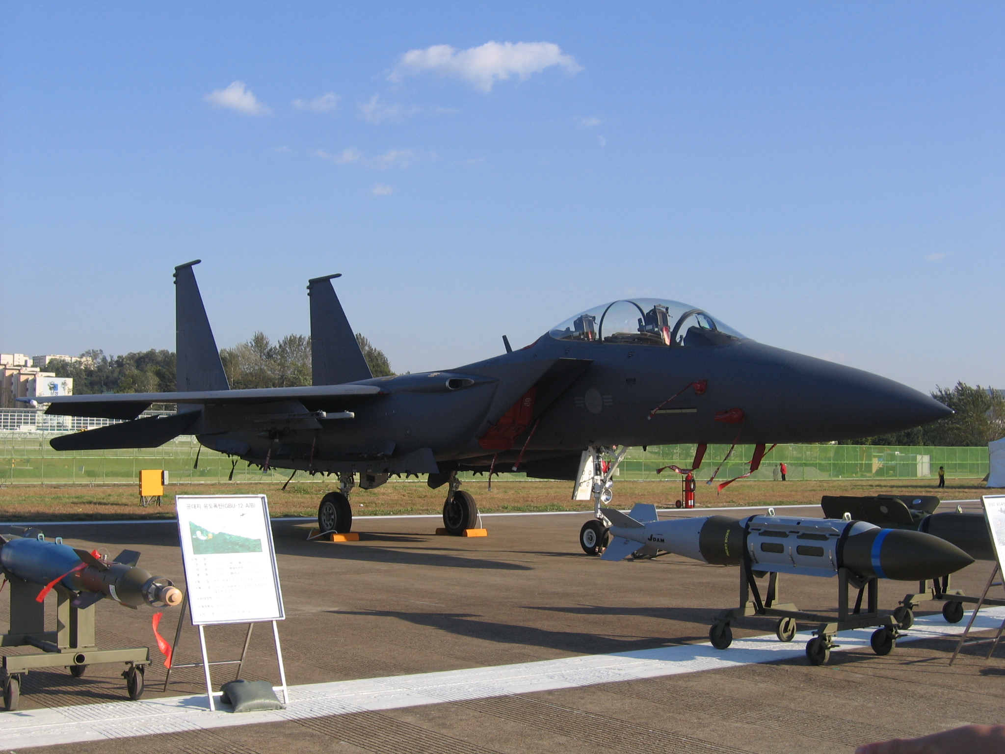 F-15K of South Korea which photoed by Rheo1905 in 2007 Seoul Air Show